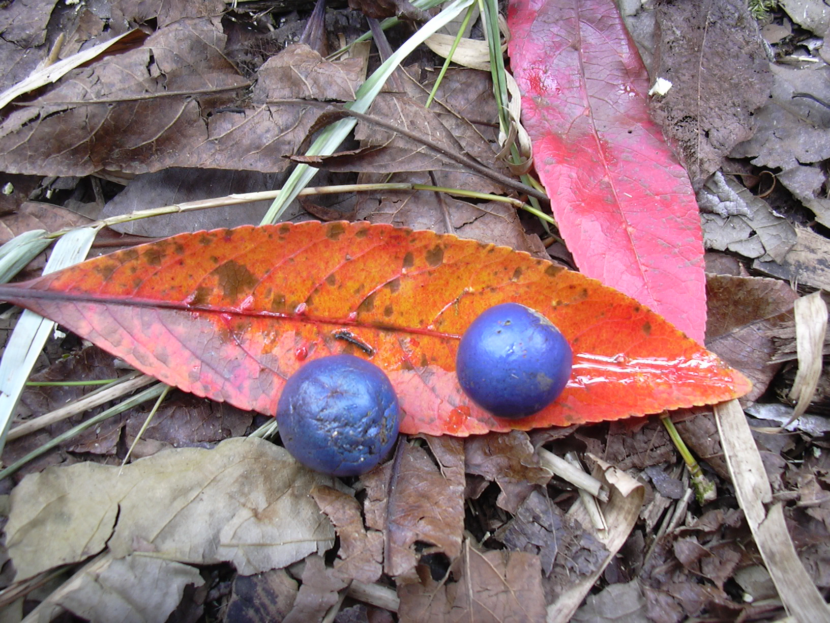 Elaeocarpus angustifolius (leaves and fruit). Location: Maui, Keanae Arboretum